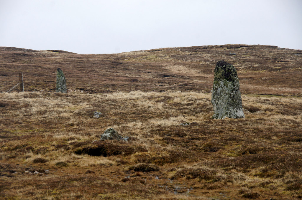 Giant's Stones, Hamnavoe, Eshaness